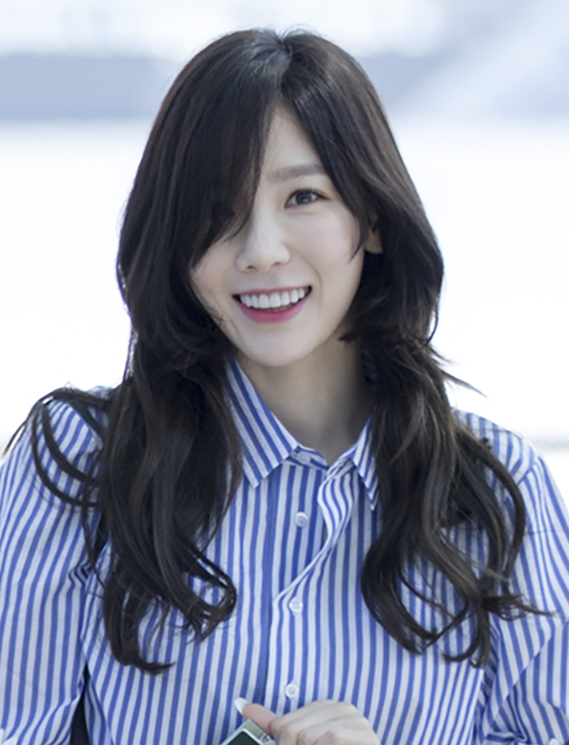 Kim Tae-yeon on May, 18 2017